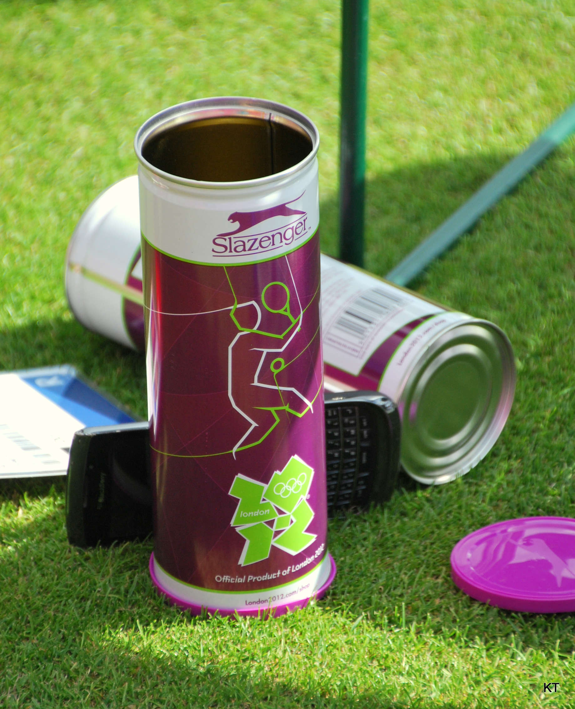 Slazenger branded 2012 Summer Olympic tennis balls.